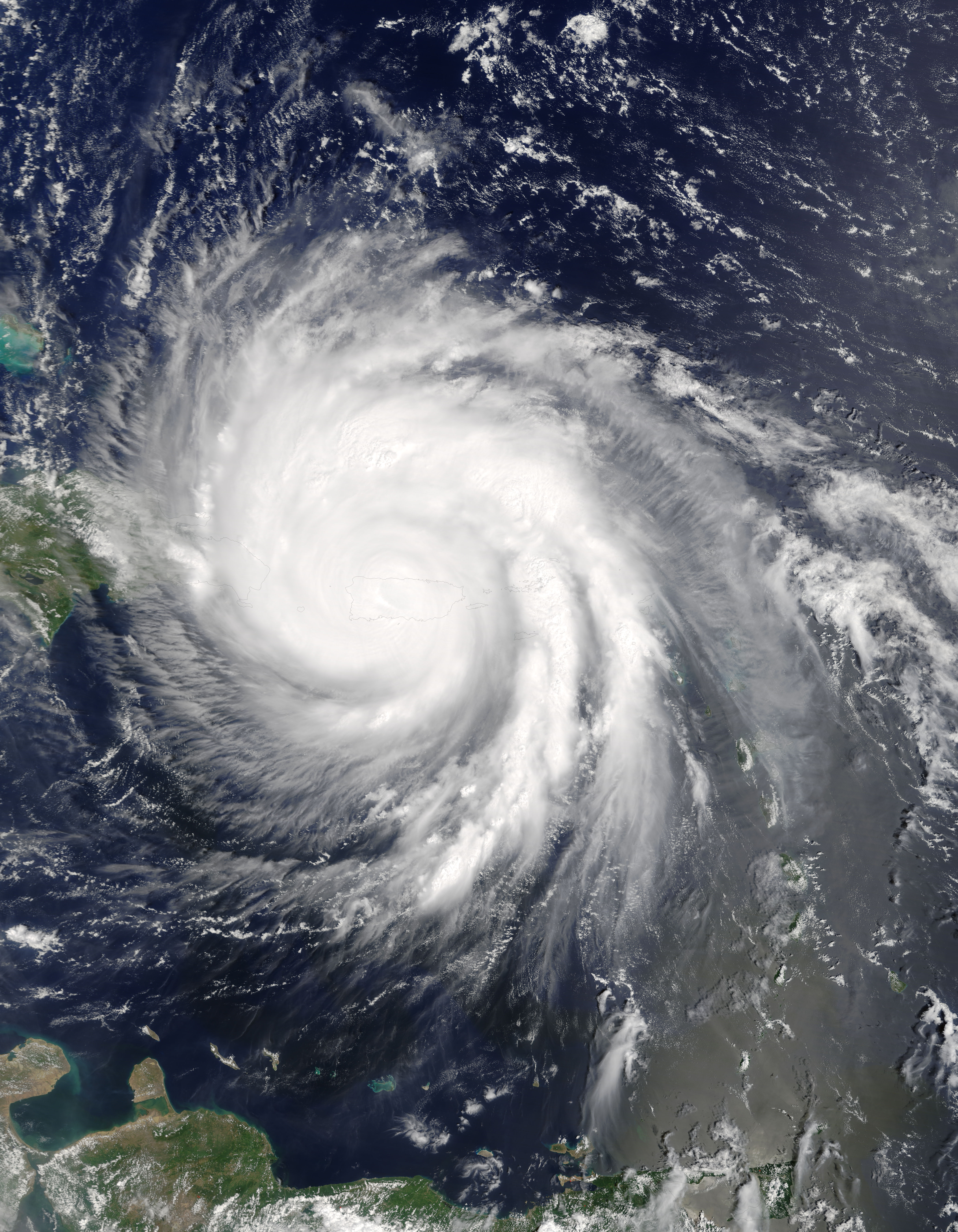 Hurricane Maria (15L) over Puerto Rico